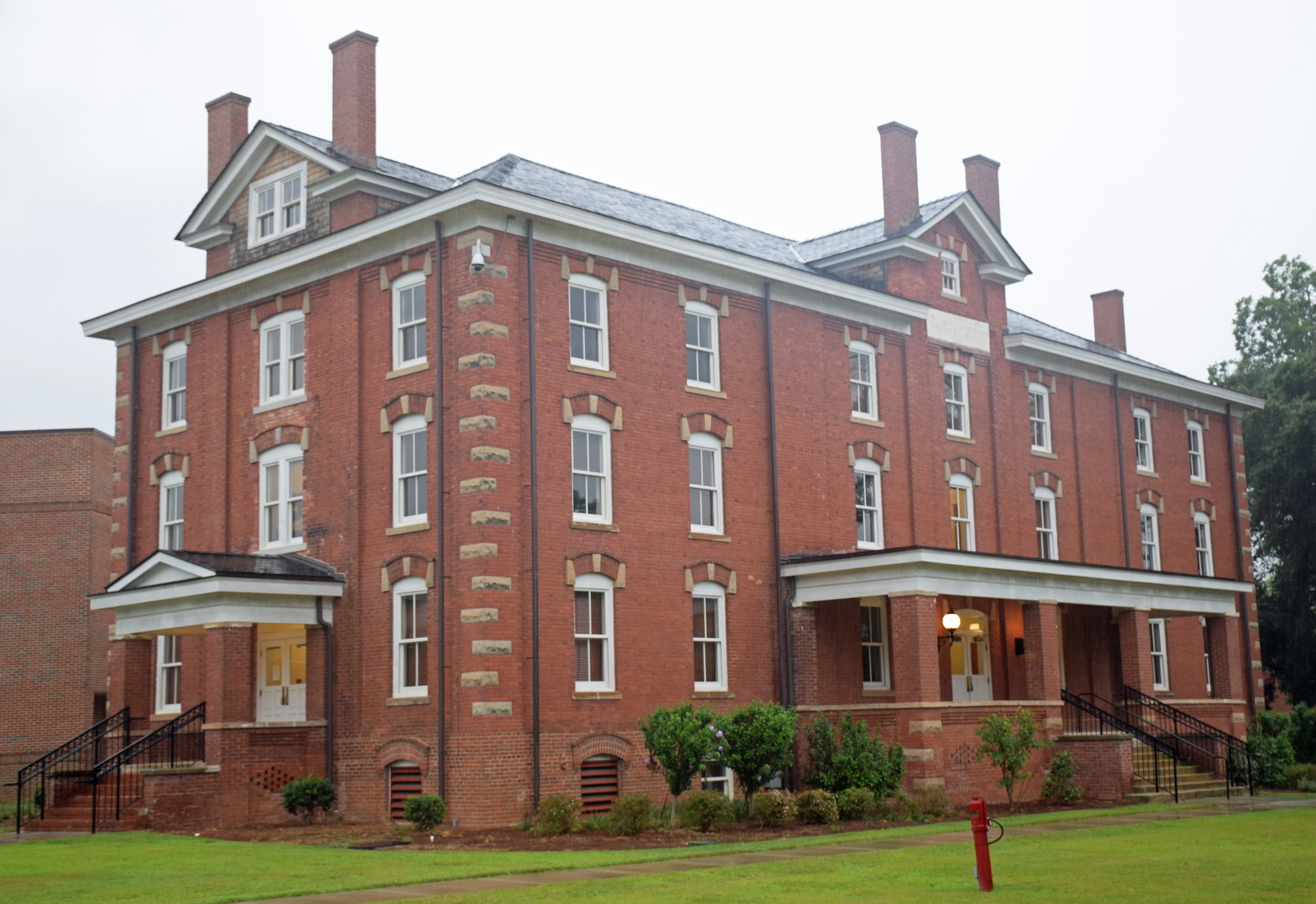 Fort Valley State College Historic District, Huntington Hall Fort Valley State College, Fort Valley, Georgia, US